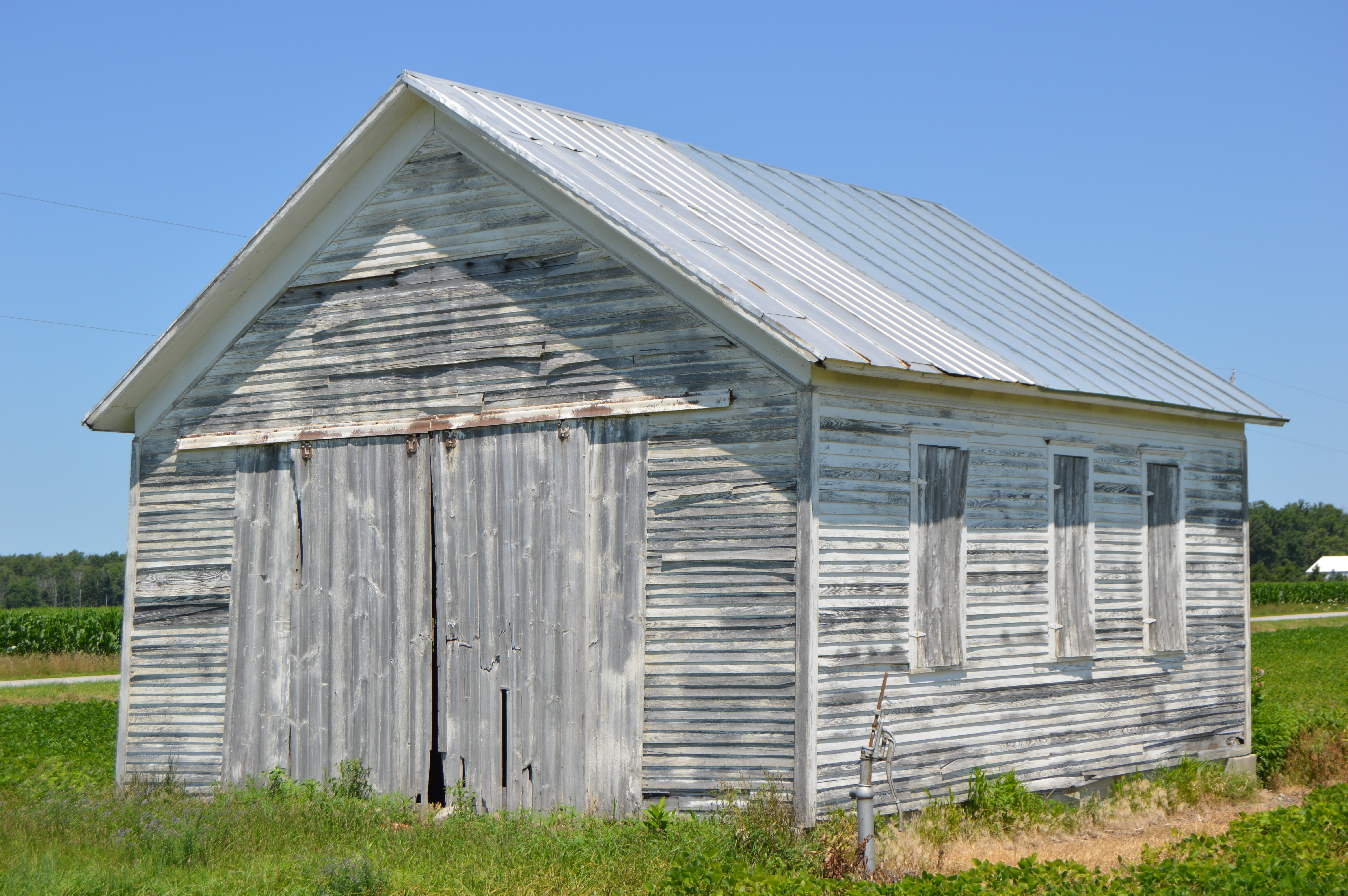 Front and eastern side of an abandoned schoolhouse at the junction of 10 and F Roads west of Hamler in Marion Township, Henry County, Ohio, United States.